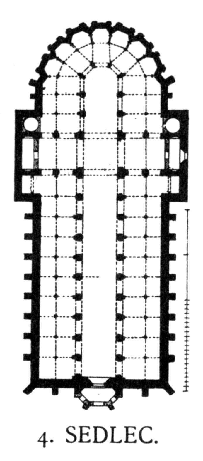 Sedlec